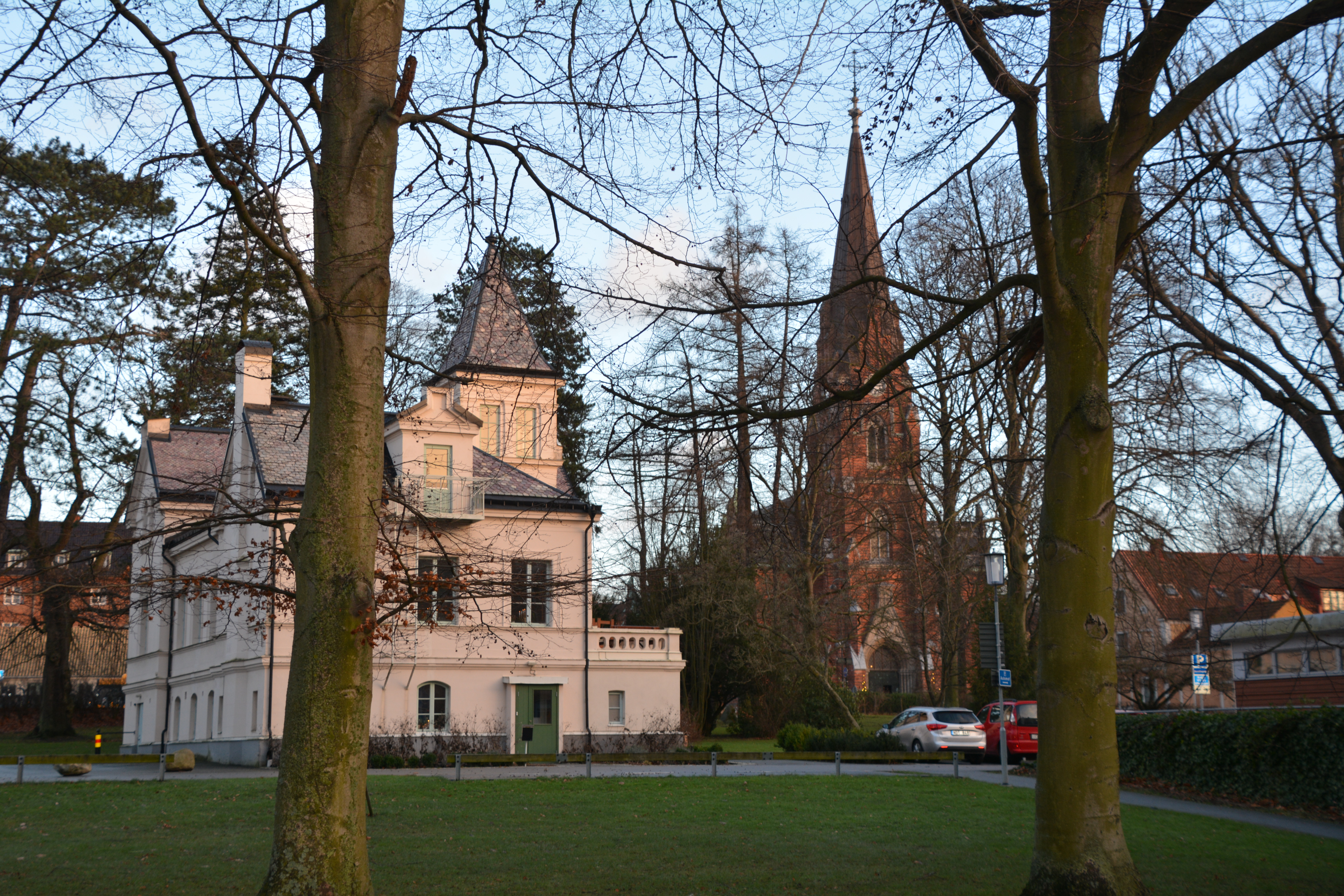 Quennerstedtska villan och Allhelgonakyrkan